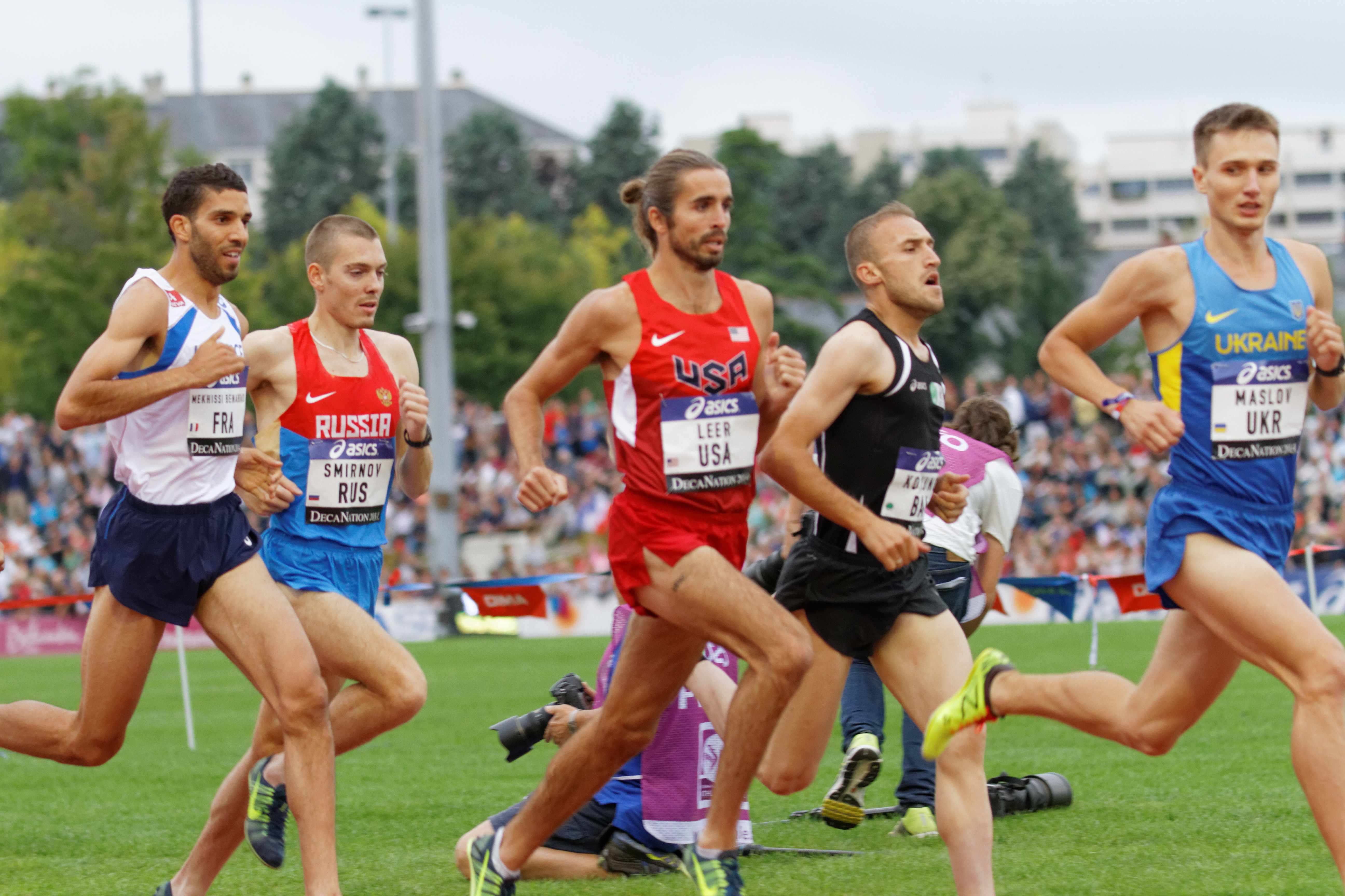 DécaNation 2014. 1500m.